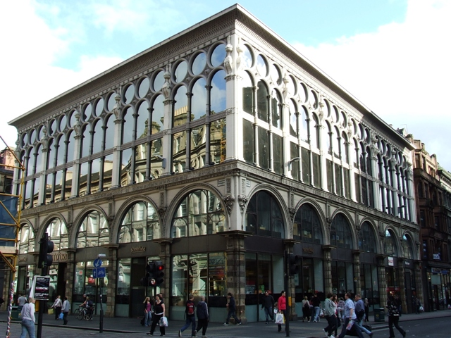 The Ca D'oro Building. By Glasgow architect John Honeyman, based on the Golden House in Venice. Mixture of cast iron and masonry construction. The building was completely gutted by fire in 1988, but the main structure survived. Not to be confused with the nearby Crystal palace 305230.